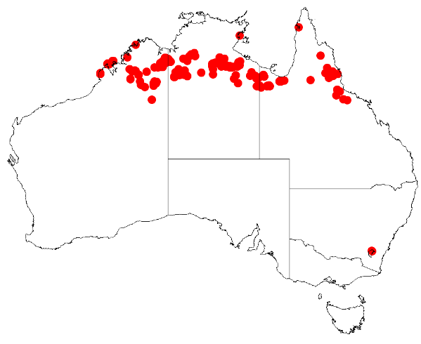 Acacia wickhamii Occurrence data from Australasia Virtual Herbarium downloaded from on 8 December 2018